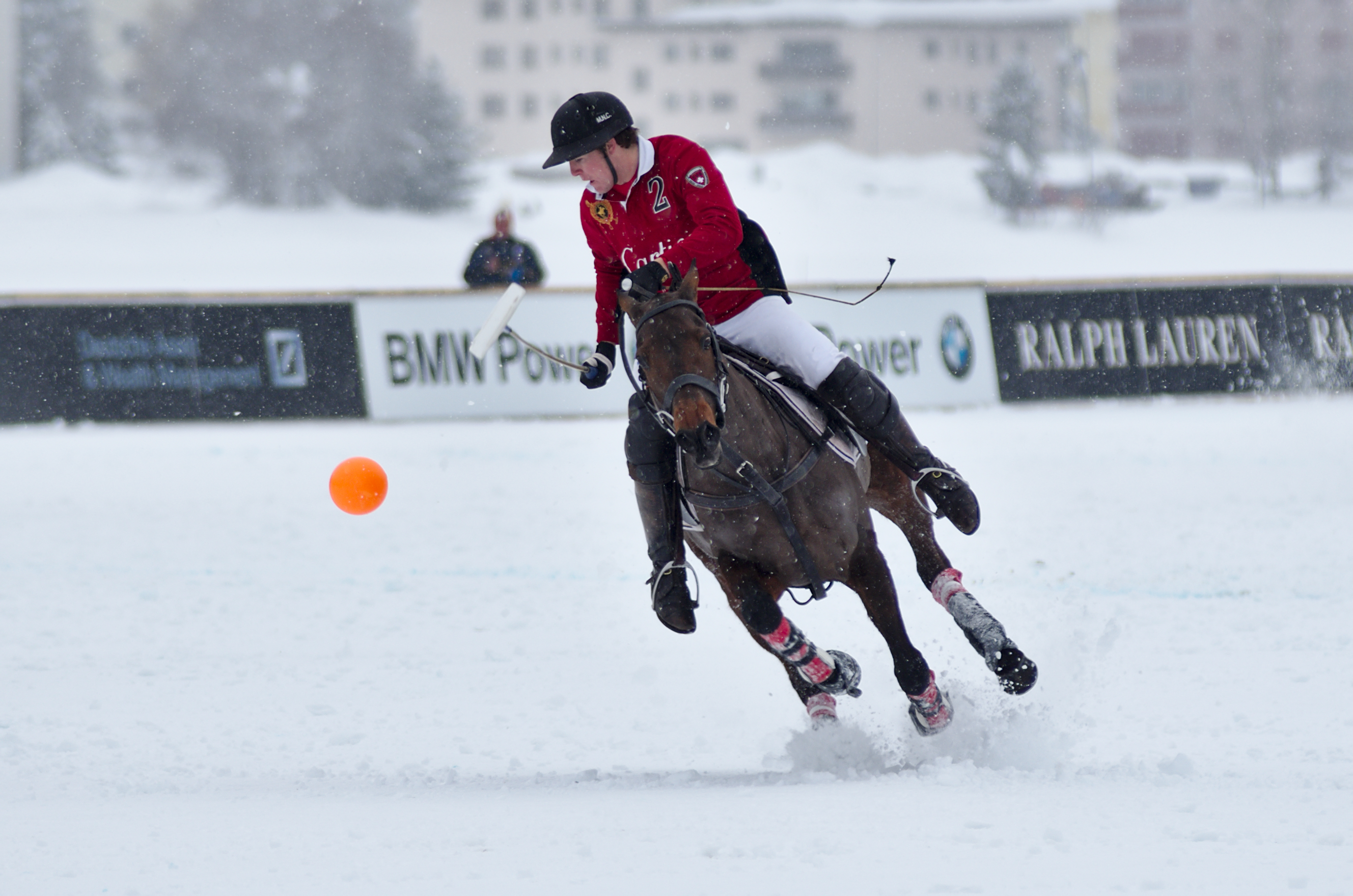 30th St. Moritz Polo World Cup on Snow - 20140202 - Cartier vs Ralph Lauren